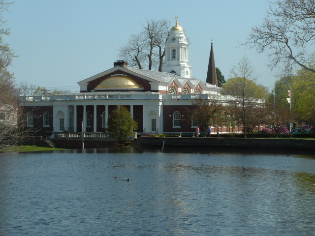 Milford,CT Town Hall.